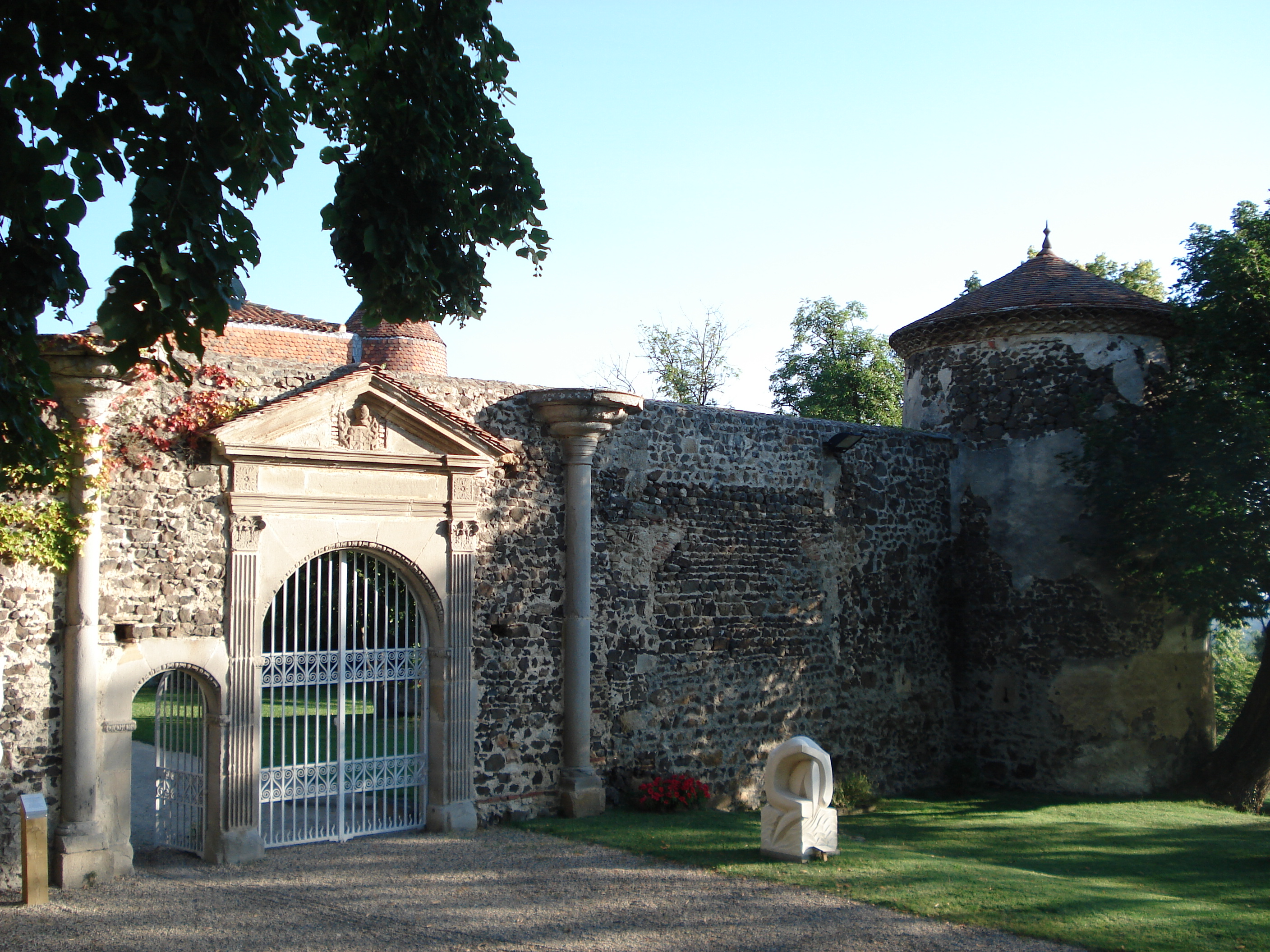 Goutelas' Castle gateway